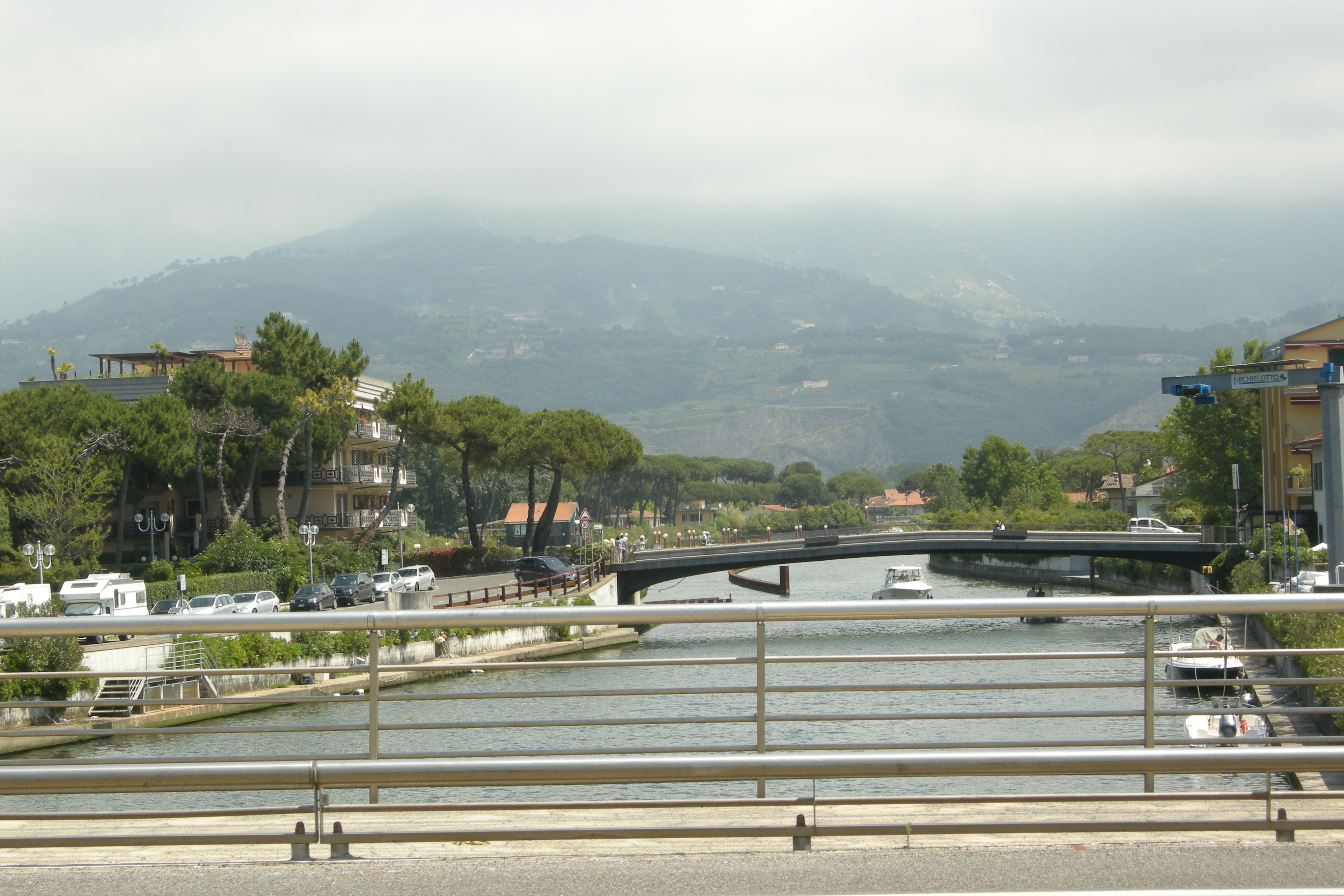 Montignoso, Italy